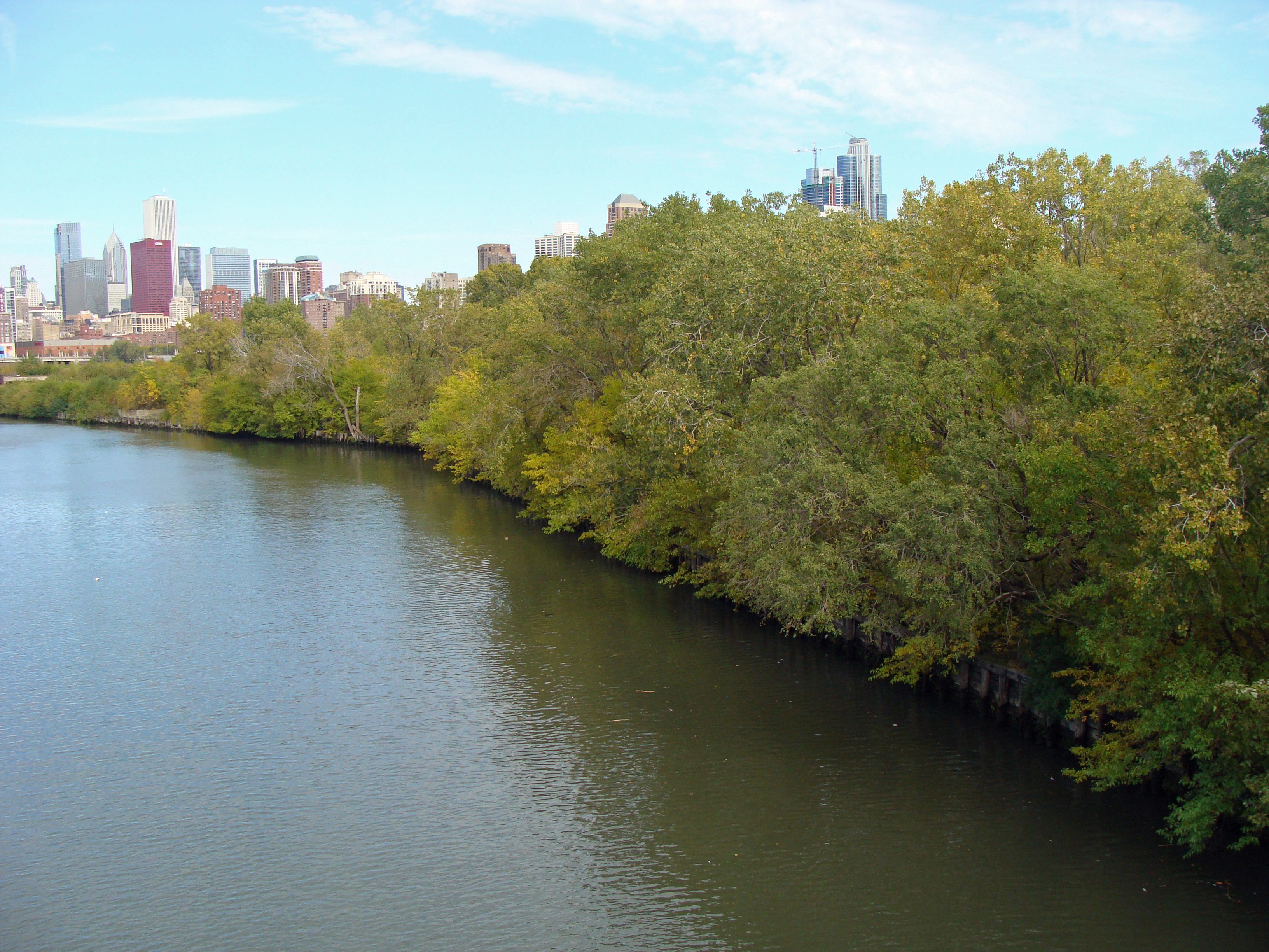 Undeveloped north side of 18th street, riverside